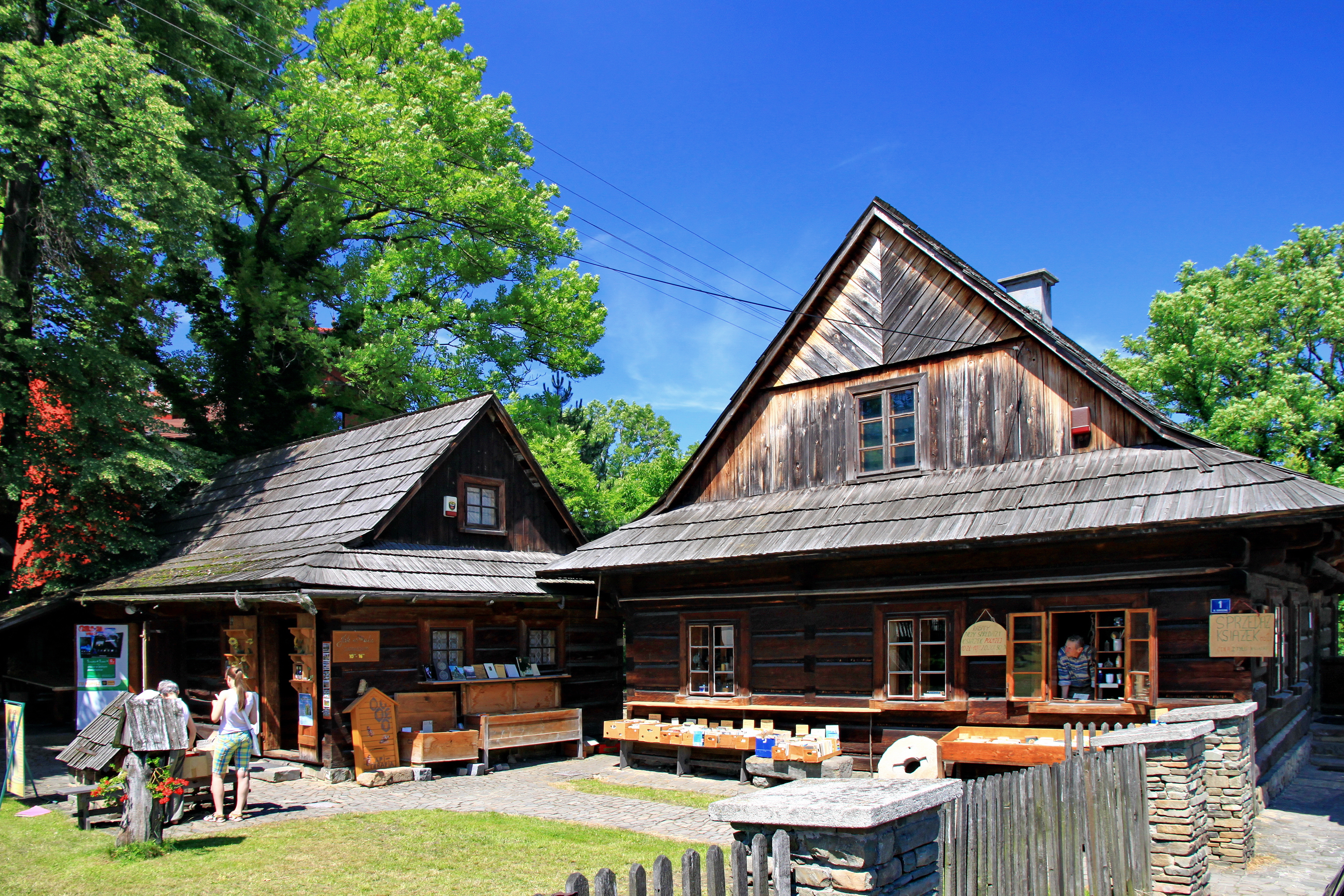 Ustroń, former farm, now regional museum "Old Farm", build in 1768